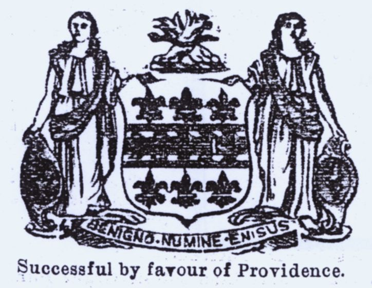 Monk Bretton ArmsRodolph (talk) 23:52, 23 December 2007 (UTC)